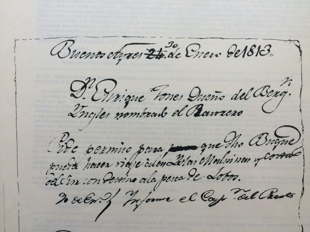 Permission asked by Enrique Jones to Buenos Ayres government to hunt sea lions around Falklands